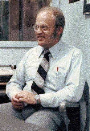 David W. Tucker in his office